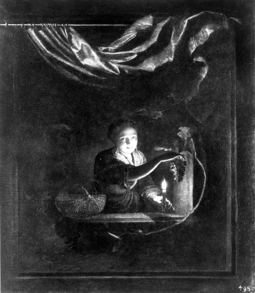 'Girl picking grapes with a candle (by the window)', by Gerrit Dou, painted ca. 1656. This painting was part of the collections of the Gemäldegalerie Alte Meister in Dresden and and it has been missing since the end of World War II, in 1945. - Dimensions: 35,5 x 29,5 cm - Oil painting on wood